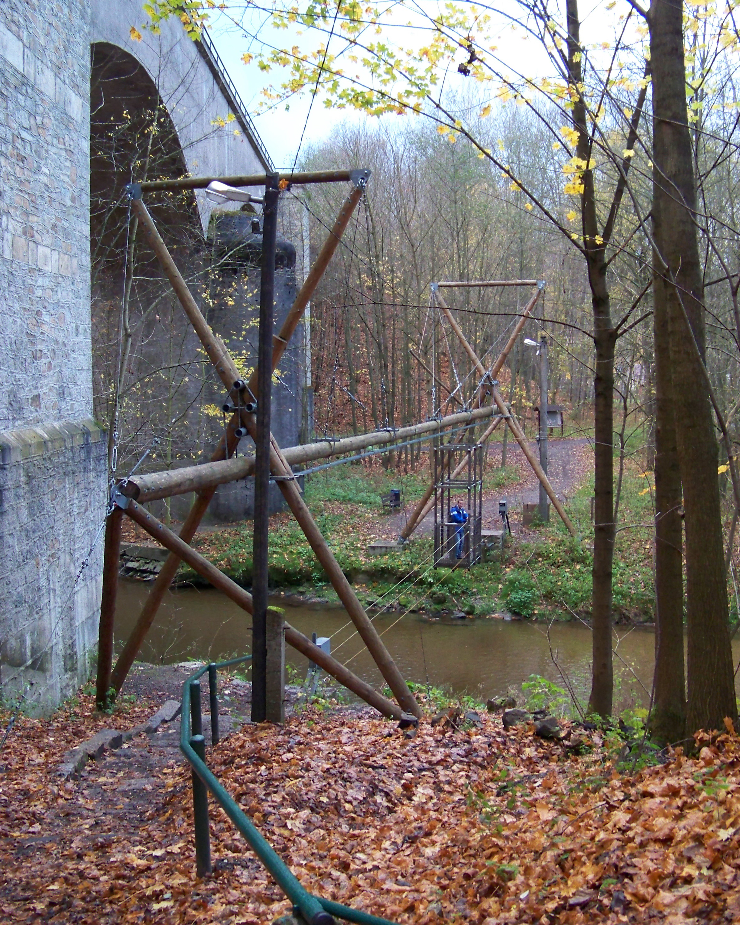 Liberec-Machnín and Chrastava-Andělská Hora, Liberec District, Liberec Region, Czech Republic. A transporter bridge over the Lussatian Neisse near Harmštejn Castle.